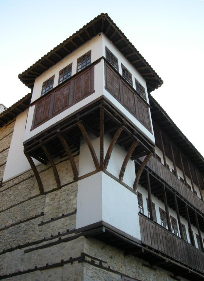 Tsiatsapa (Morali) Mansion, Kastoria, Greece